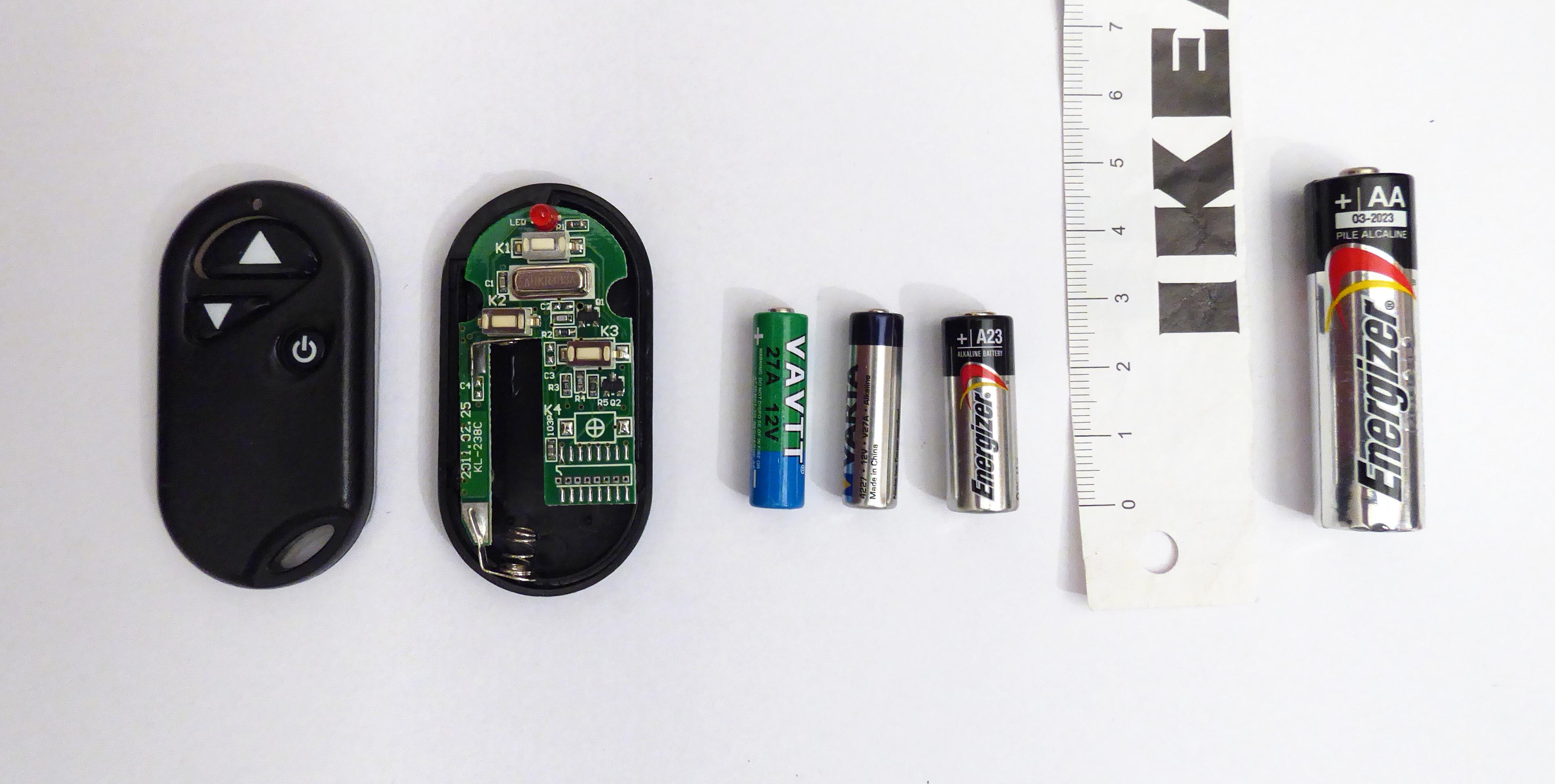 Photo illustrating the A27 battery size (also known as 27A, GP27A, MN27, L828, 8LR732, 22). This is a battery with 12 V nominal voltage, so internally has 8 cells. Shows from left to right: a disassembled infrared remote control from adjustable brightness home led lighting that uses an A27 battery, two A27 size batteries (left one is probably mercury, right one is alkaline), an A23 size battery for comparison (alkaline, A27 is easy to confuse with the more common A23 size because it's the same length and voltage), a centimeter scale, an AA battery for comparison (alkaline). I made the photo on 2017-09-15.